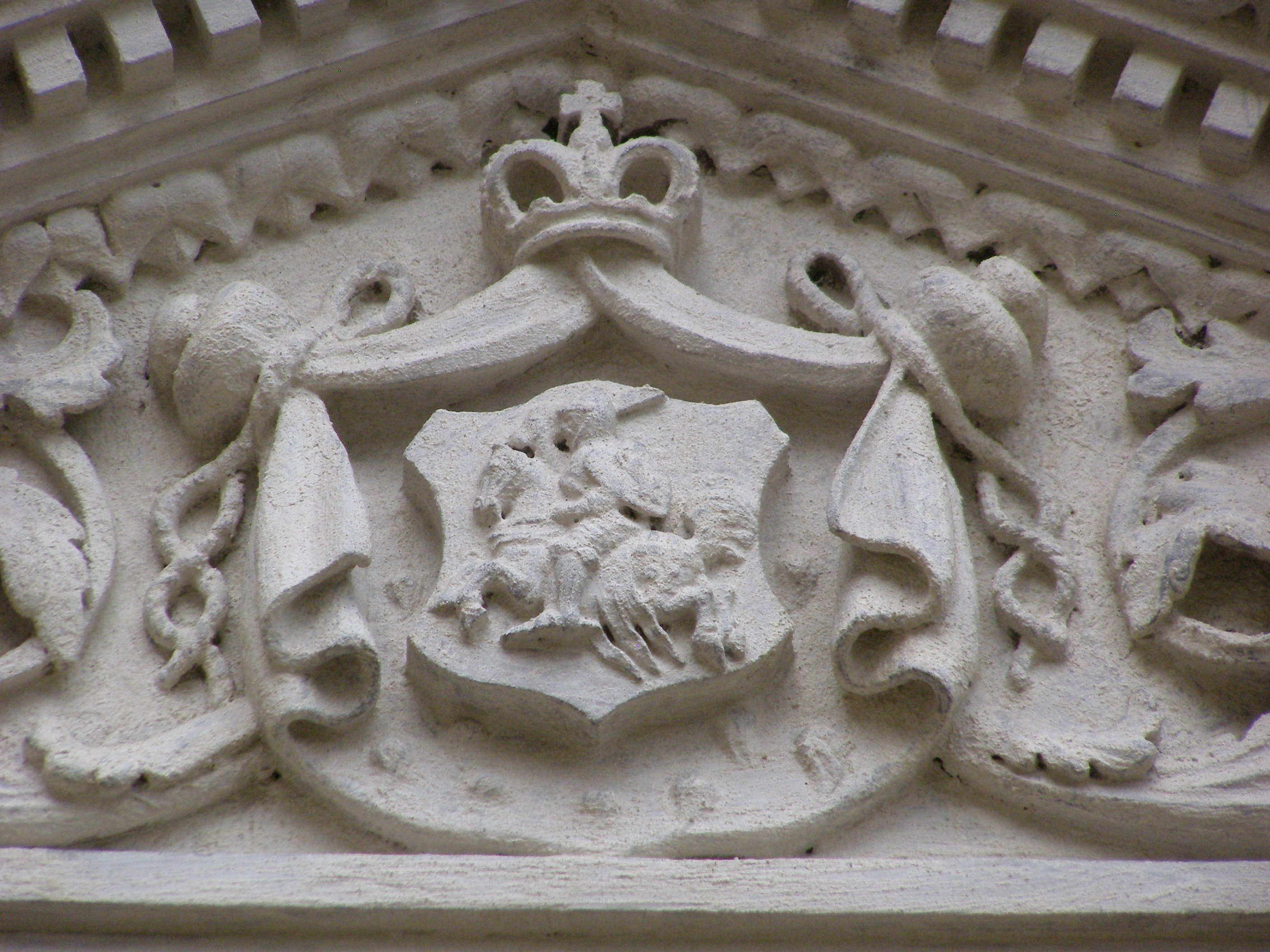 Tarnów-Gumniska - princes Sanguszko palace, currently School of Economics and Gardening - Sanguszko family CoA Pahonia on a portal